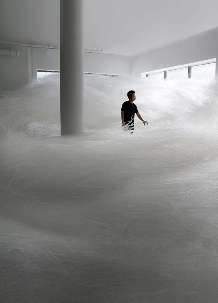 Design Miami/ Designer of the Year/ Tornado (2007)